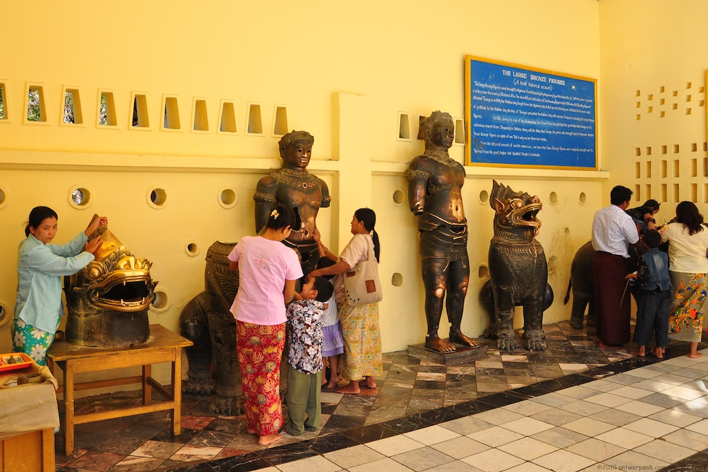 These large bronze figures were brought to Myanmar from Thailand by King Baymaung Kyaw Htin Nawrahta in 1563 AD when he gained victory over the enemy in Thailand. After the downfall and destruction of Hanthawady (Myanmar) in 1598 when the Thai King Byanarit attacked Toungoo in 1599, the Rakine king fought from the Myanmar side. In that was, the Thai king was defeated. As he owed a debt of gratitude to the Rakhine king, the king of Toungoo presented the Rakhine king with various treasures including the large Bronze Figures. ....